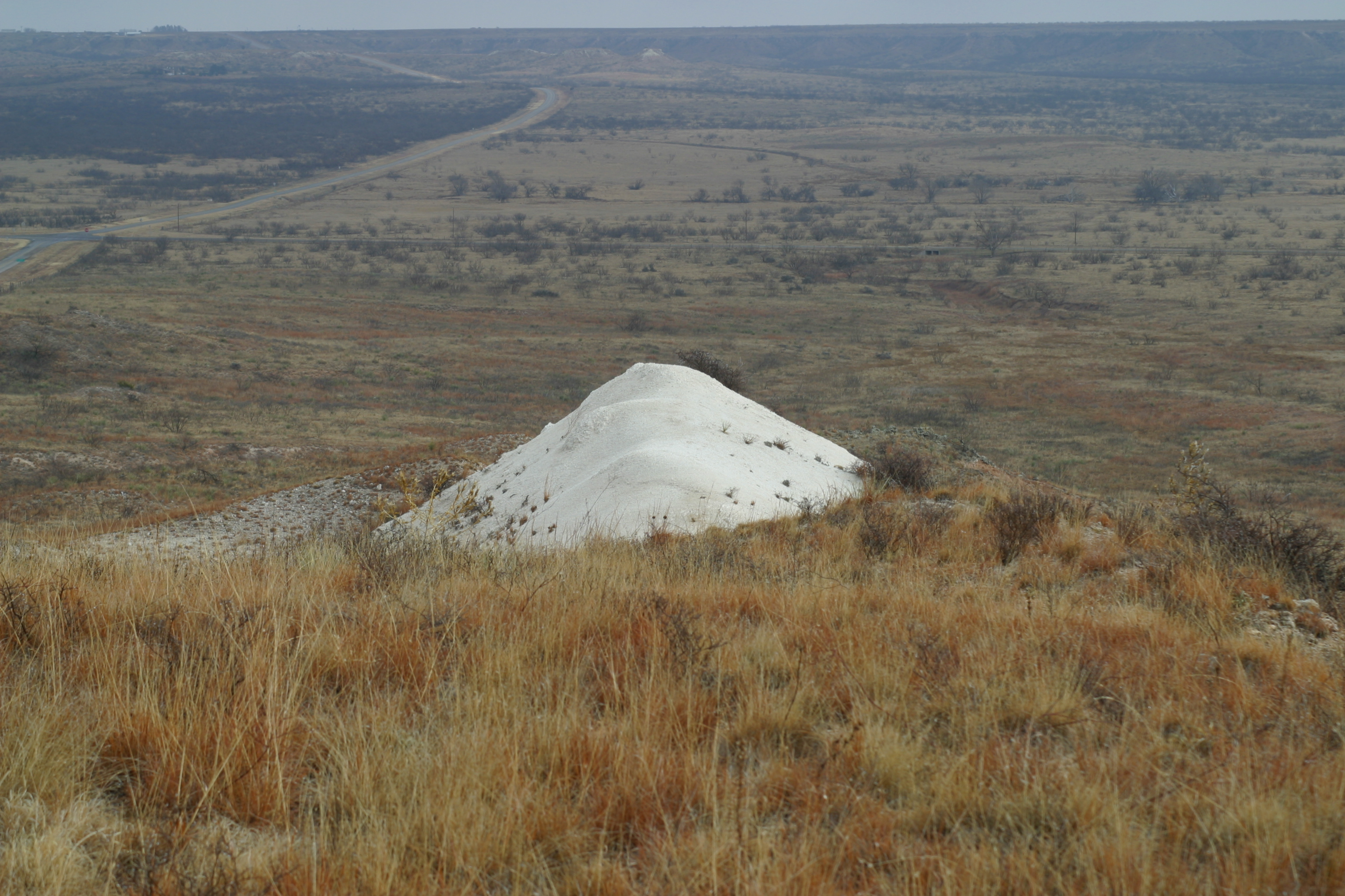 Mount Blanco viewed from above with Blanco Canyon in the background.